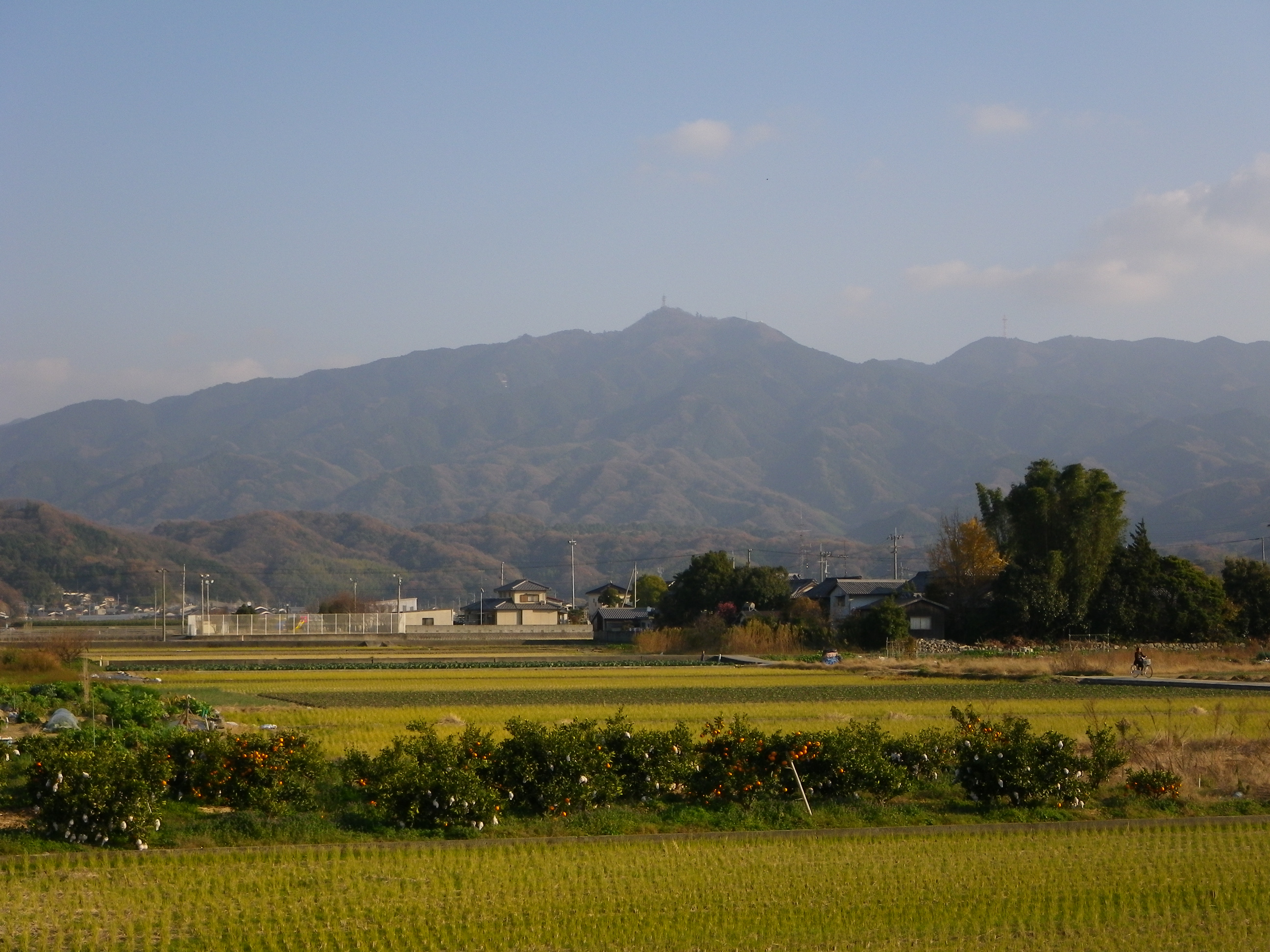 Mount Takanawa (Takanawa-san) as seen from the northwest in Matsuyama, Ehime Prefecture, Japan.